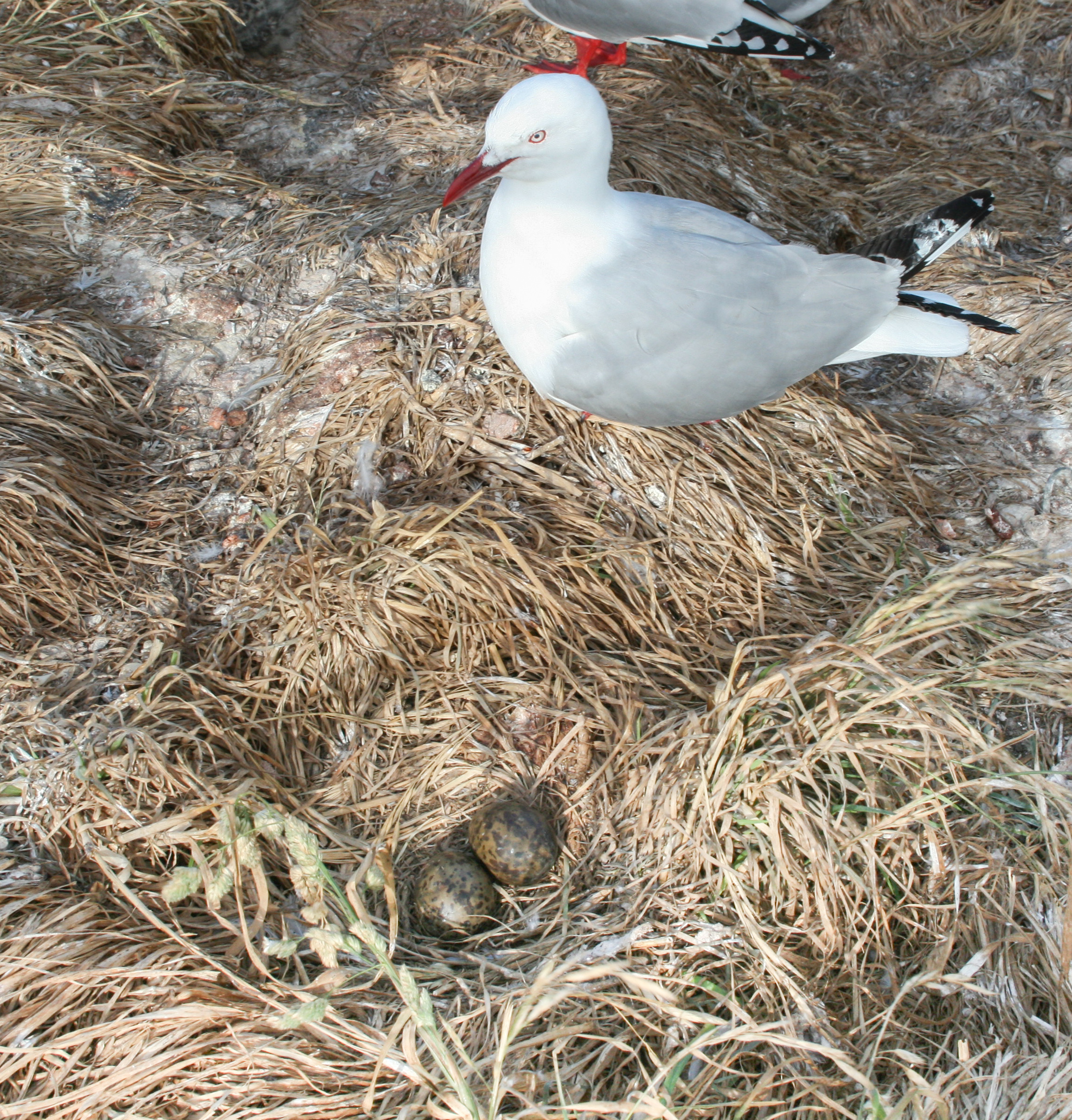 Red billed gull (Chroicocephalus scopulinus) in New Zealand